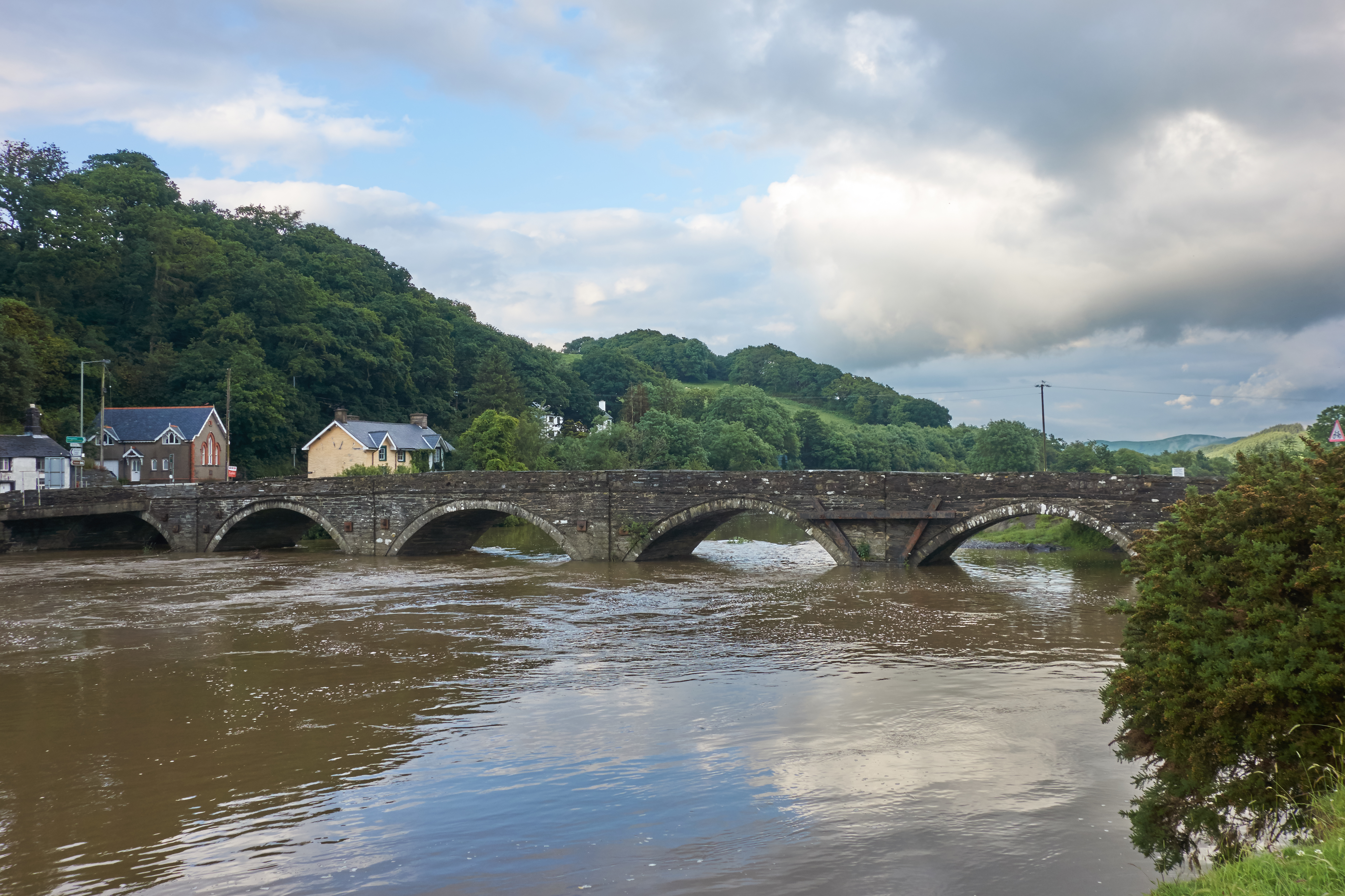 Dyfi Bridge, Machynlleth, June 2016